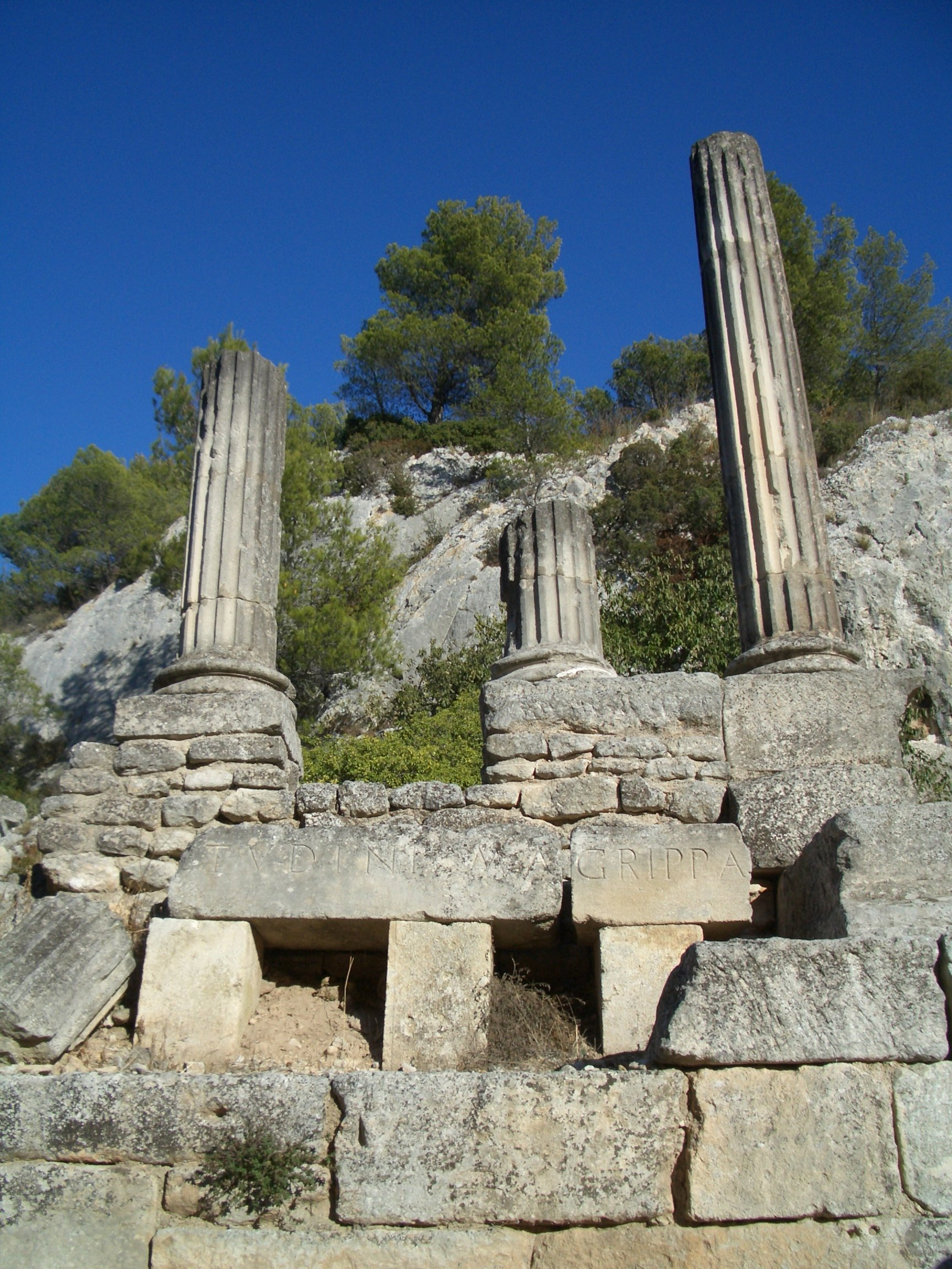 Agrippa's dedication to Valetudo at Glanum, just outside St-Remy-de-Provence in France.